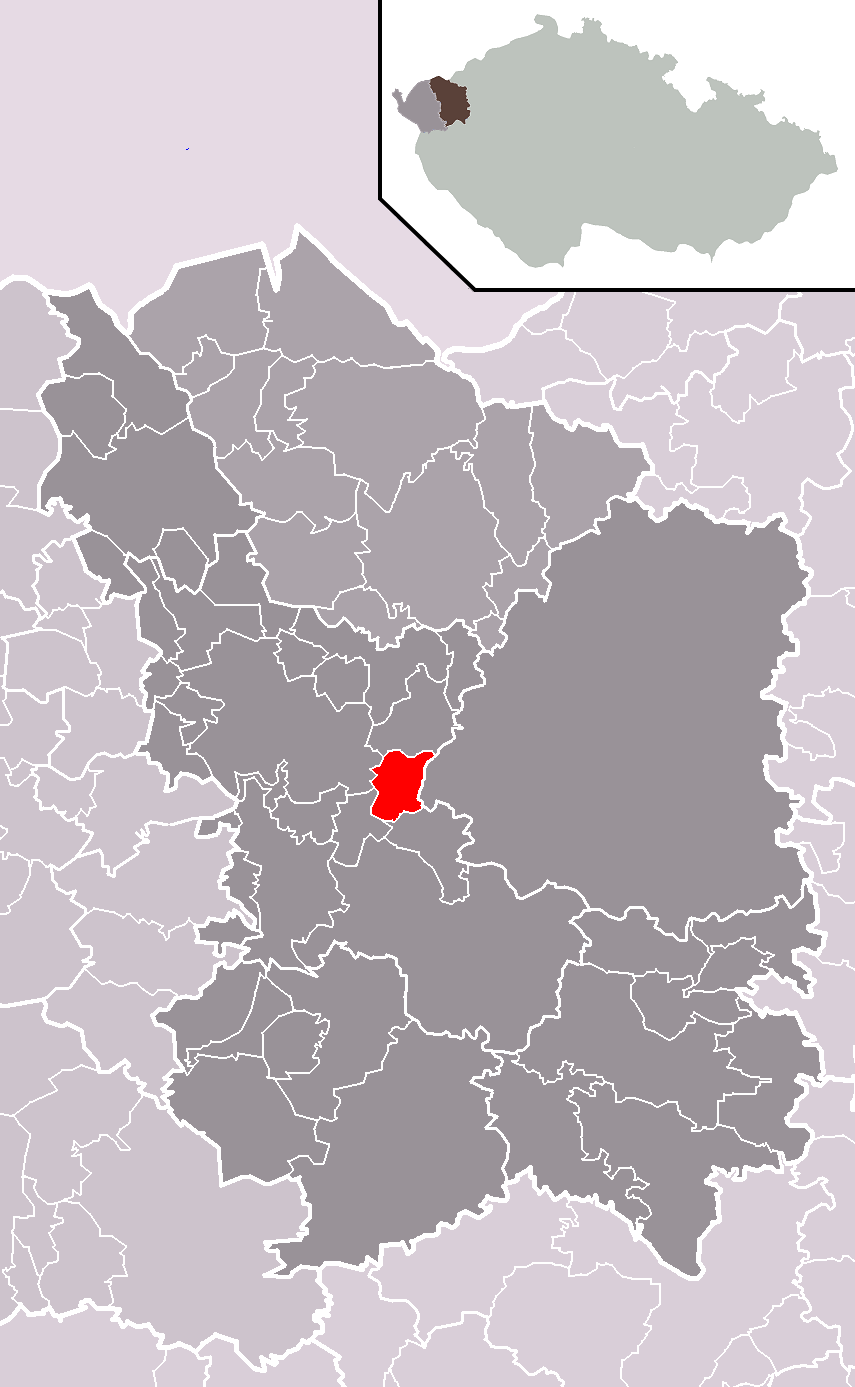 Location of Andělská Hora municipality within Karlovy Vary District and administrative area of Karlovy Vary as a Municipality with Extended Competence.